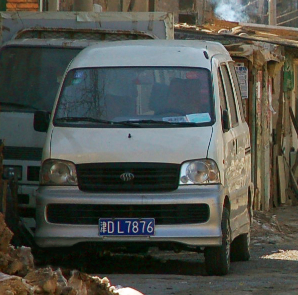 Huayang BHQ 6361B, based on the 1999 Daihatsu Atrai Camera: Nikon D50 License on Flickr (2011-01-12): CC-BY-SA-2.0 Flickr tags: china, tianjin, streets, people, market, vendors, sunshine, winter